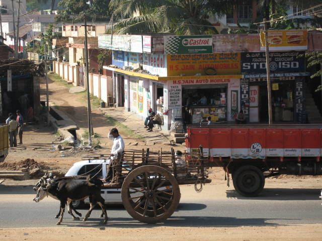 A street view of Hunsur, a rural area center (taluk center) in Karnataka, South India.